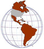 Seal of Bureau of Western Hemisphere Affairs